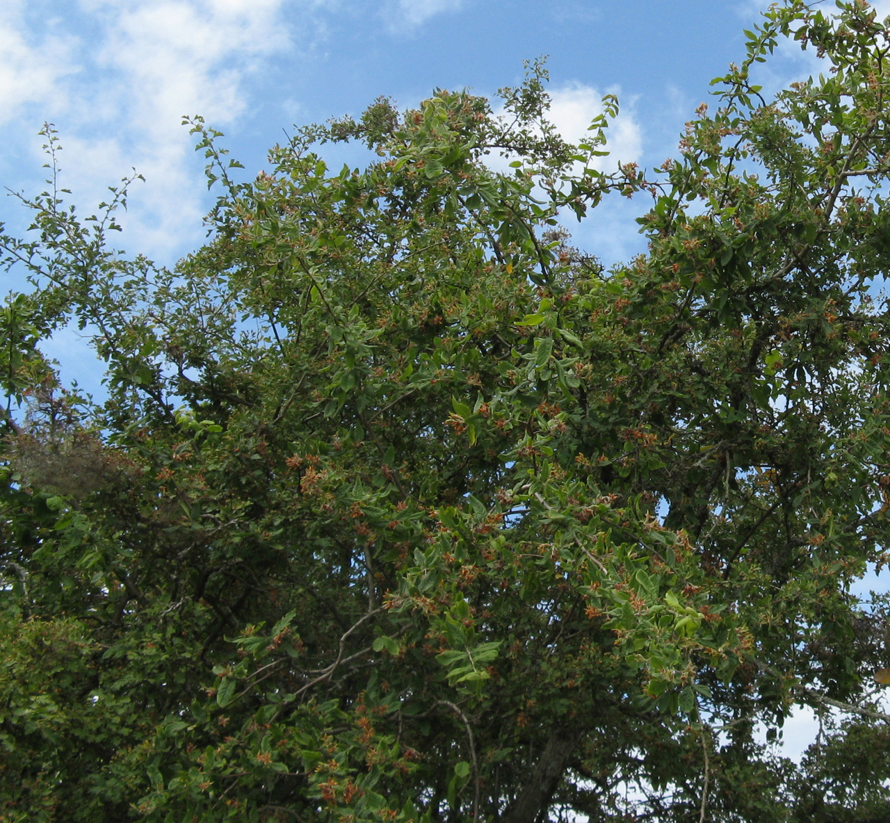 Bergius botanic garden, Stockholm